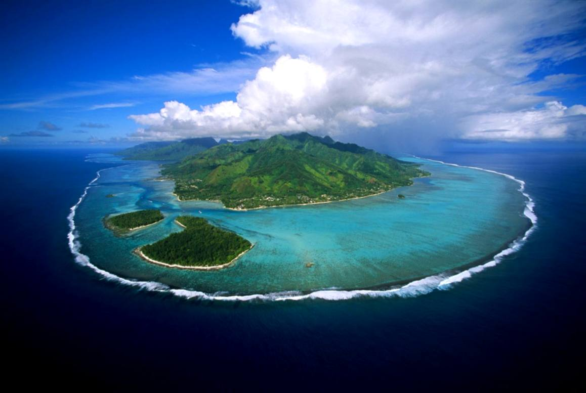 Aerial view of Mooréa. This is a view from the northwest. Isle Motu Fareone and Motu Thiahura are in the foreground.